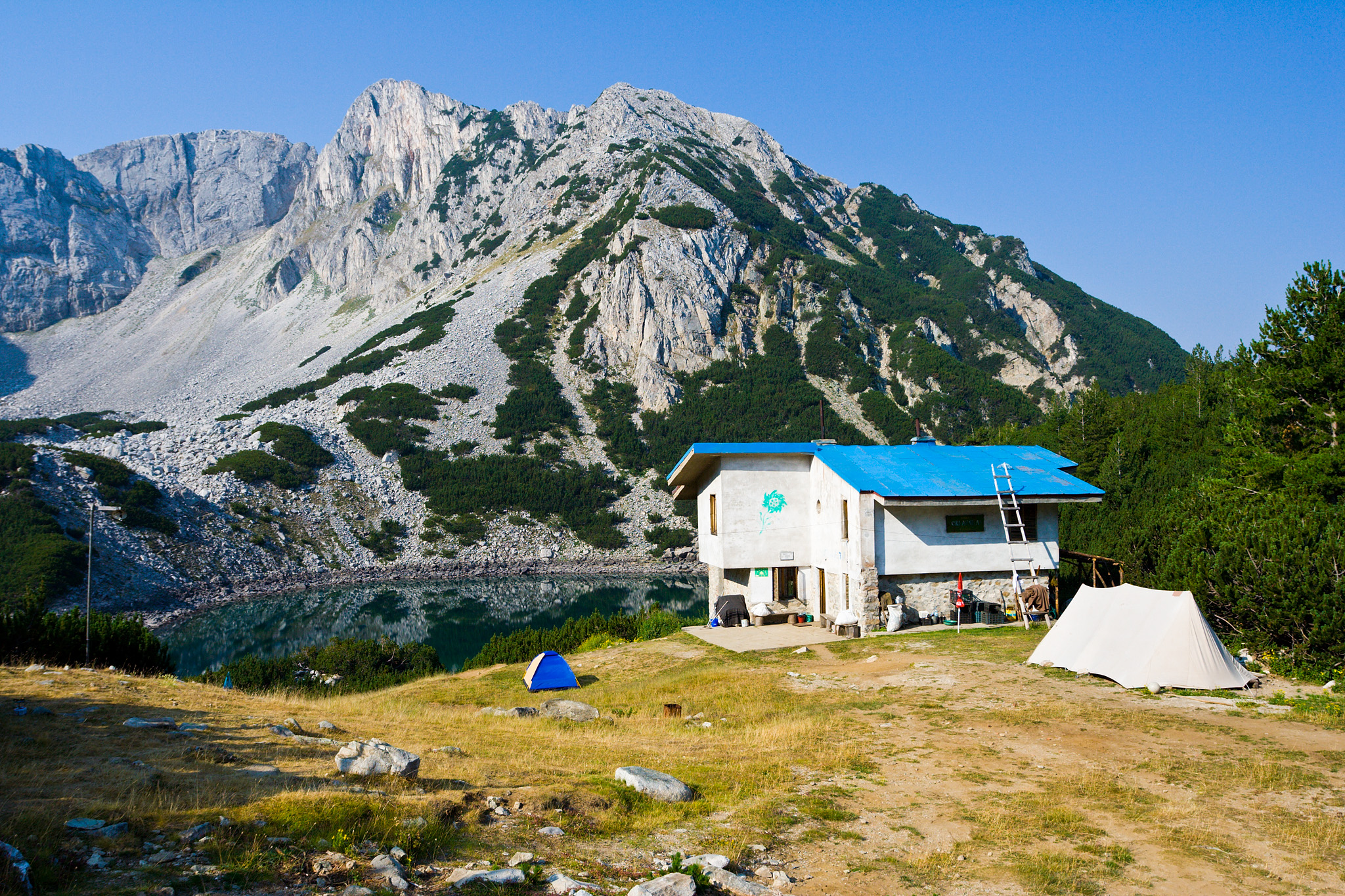 Sinanitsa hut in Pirin mntn, Bulgaria